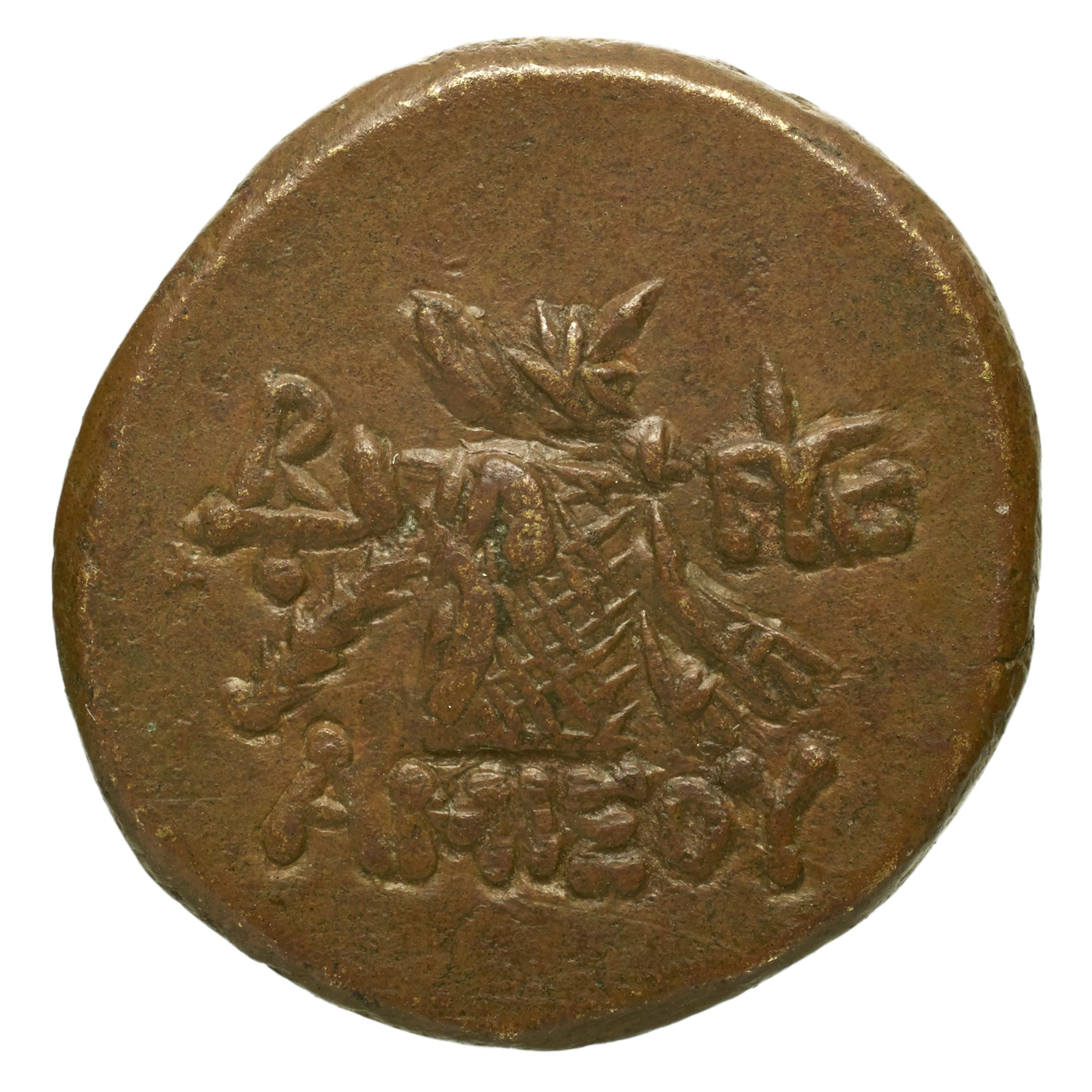 Bronze coin, Amisos in Pontus, 85-65 BCE, 7,92 g, reverse. Previous owner: Seymour de Ricci (1881-1942).